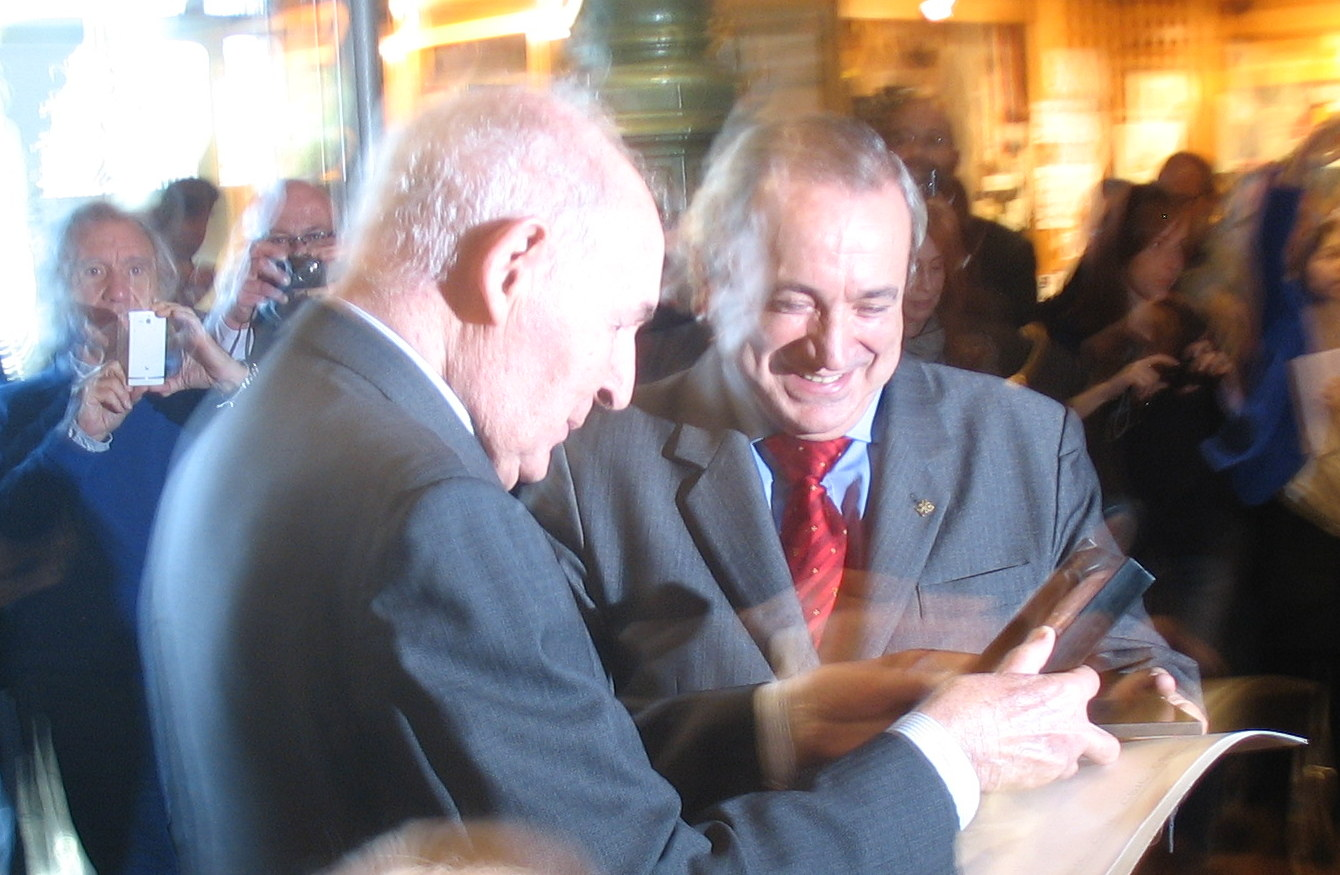 Delivery of the "CSIC Plaque" to Emiliano Aguirre (left) by its president, Emilio Lora-Tamayo (right), the March 5th, 2015, during the homage paid to mark the opening of the temporary exhibition "Emiliano Aguirre. An exceptional life dedicated to the Natural Sciences " at the National Museum of Natural Sciences, Madrid, Spain.